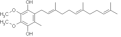 reduced form of ubiquinone (coenzyme q)